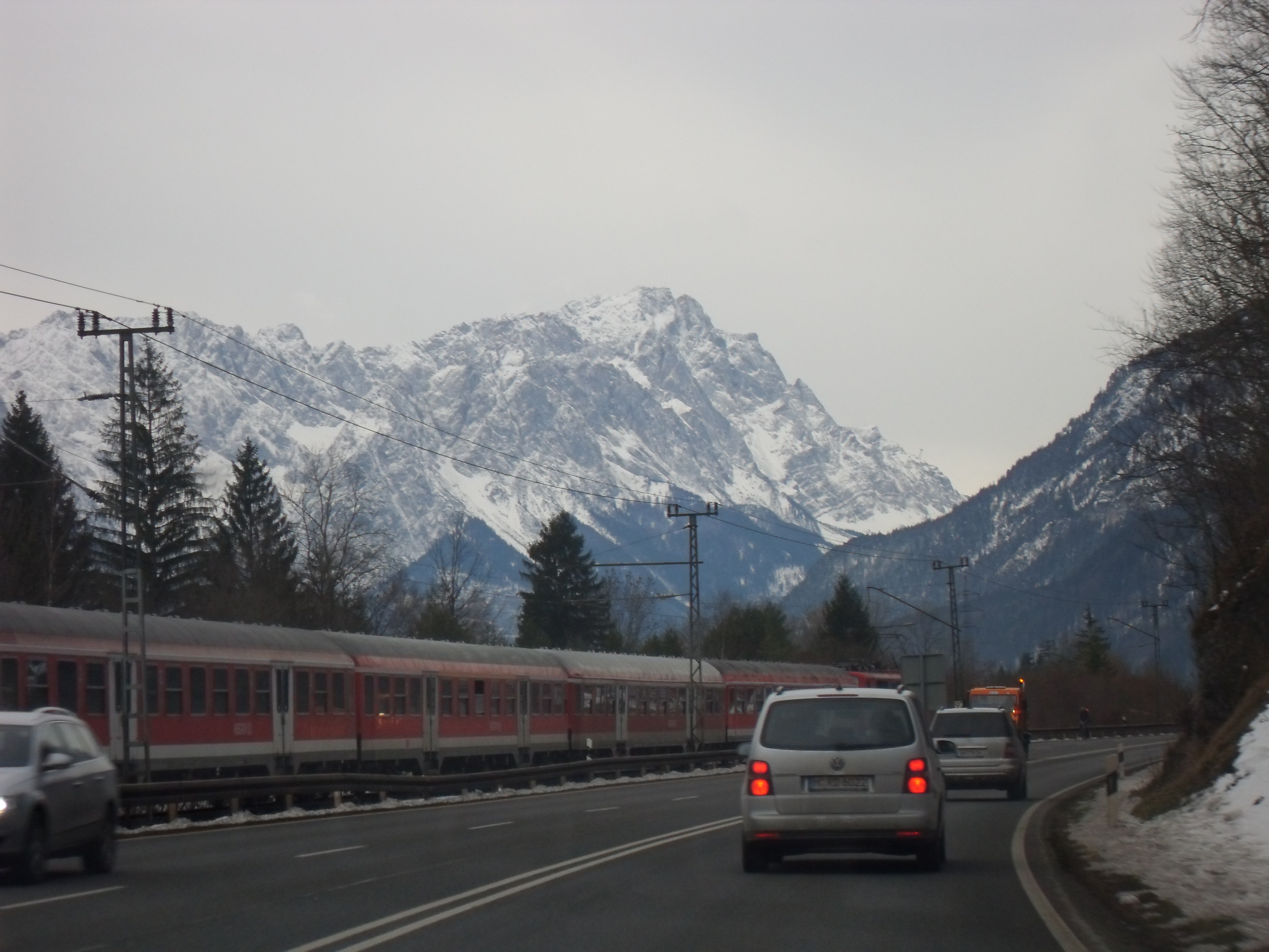 View of the Alps and a German train while traveling the German Bundesstrasse 2 en route to Garmisch-Partenkirchen, Germany.